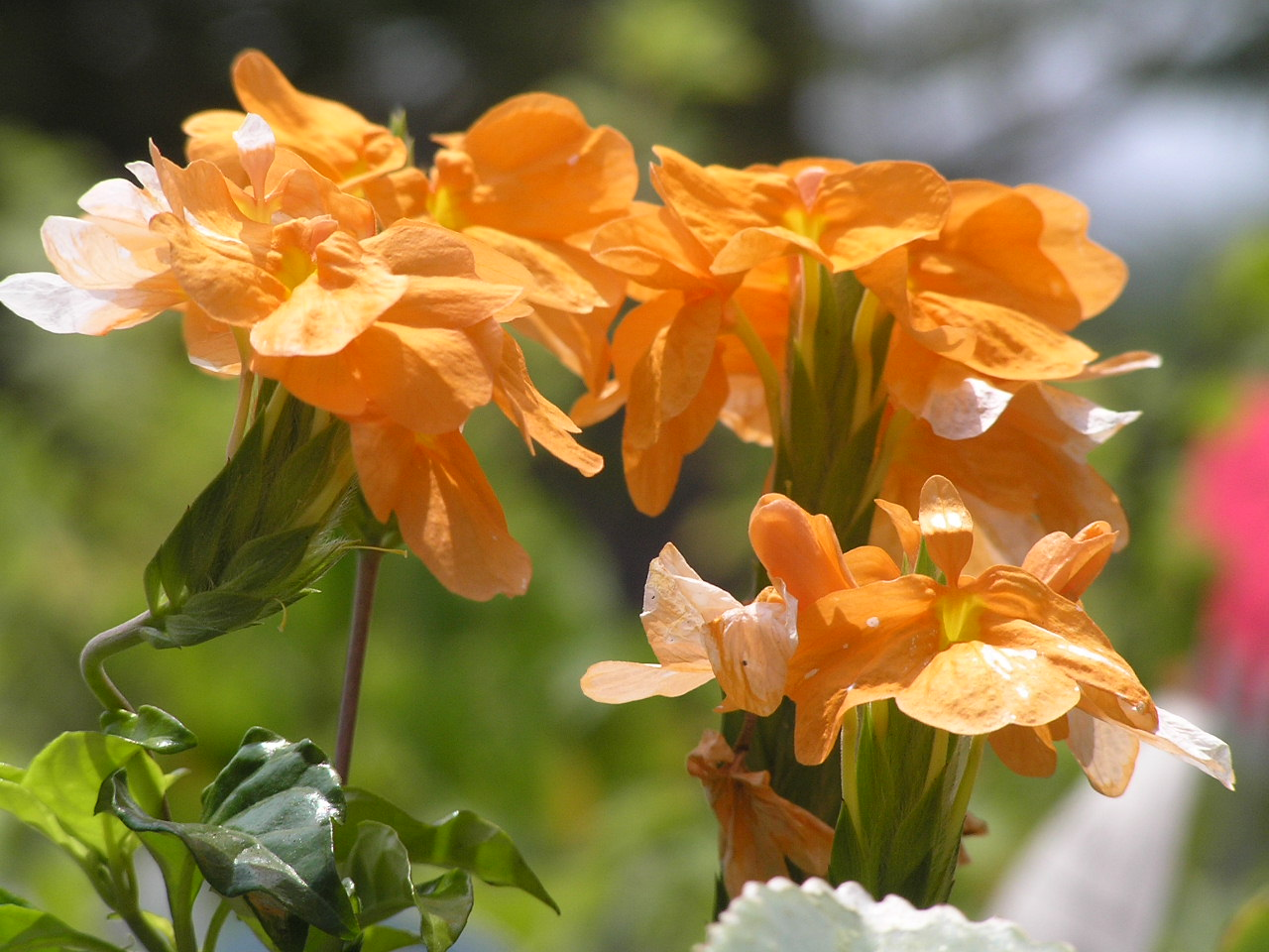 Crossandra infundibuliformis